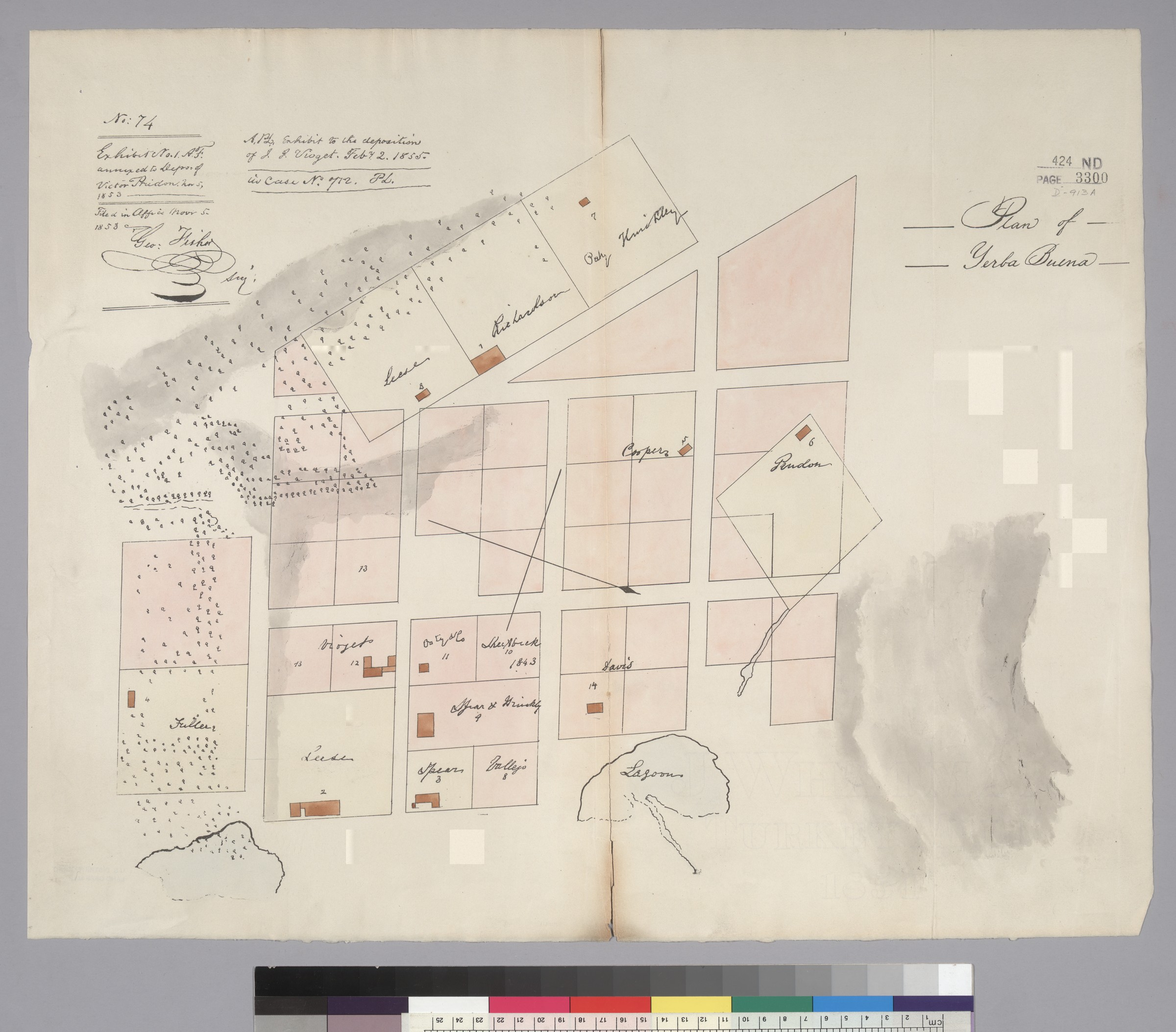 Plan of Yerba Buena (which was later renamed to San Francisco), as laid out by Jean Jacques Vioget. The map itself dates to 1839, but was published in 1853 as part of a deposition; oriented with north to the right and centered on Portsmouth Square; bounded on the right (north) by Pacific, on the left (south) by Washington), on the top (west) by Grant, and on the bottom (east) by Montgomery.